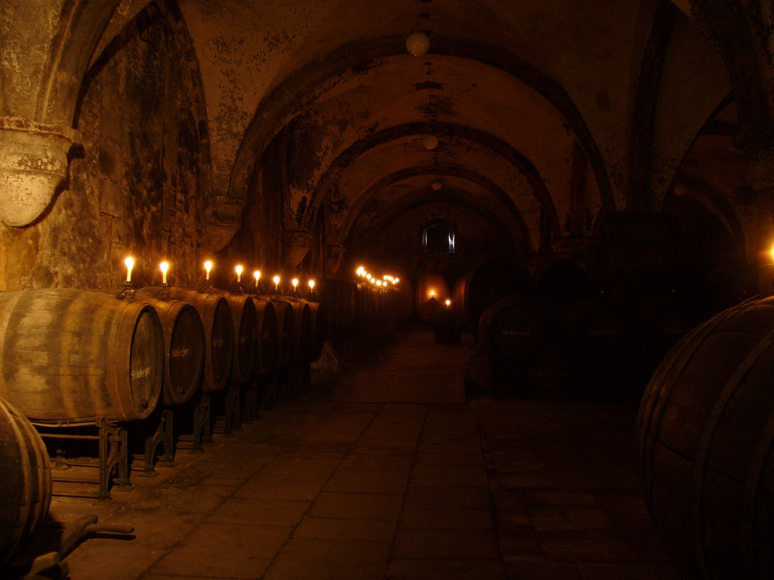 wine cellar of Monastery Eberbach, Germany